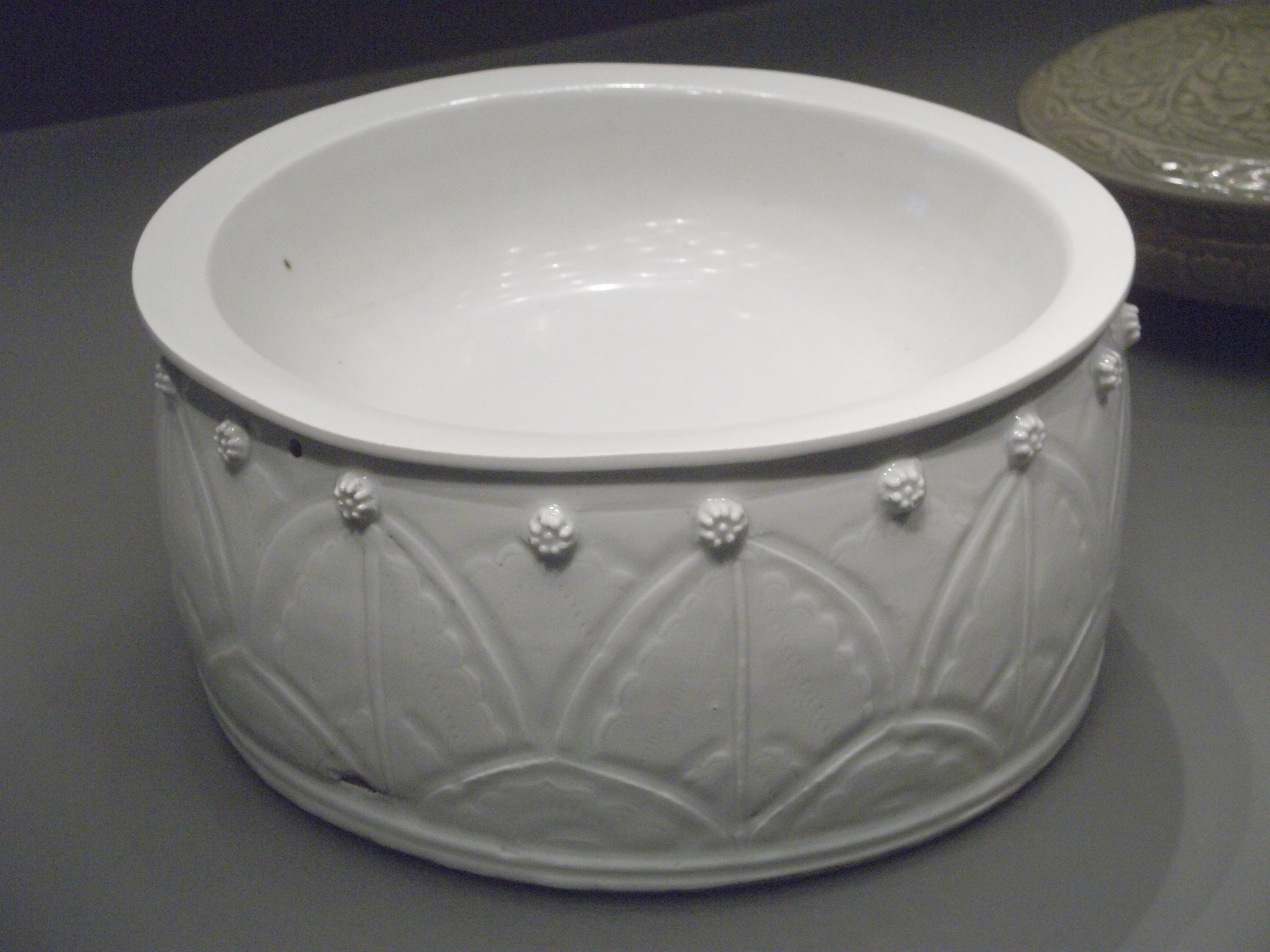 Xing ware 邢窯, Tang dynasty, ca. 800-907. Neiqiu or Lincheng county in Hebei province. Percival David Collection, Room 95, British Museum